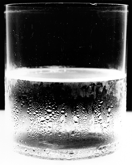 A camera-less photographic work by Amanda Means, created by shining the light from a darkroom enlarger directly through the water glass. The enlarger light passes through the water and glass to create varying levels of opacity and translucency, projected onto a sheet of photo paper. This method reveals a rich and detailed landscape beyond the familiarity of the everyday object. Bubbles, scratches, and condensation become enlarged, intensified; a mysterious world unto their own. Traditional silver gelatin print.